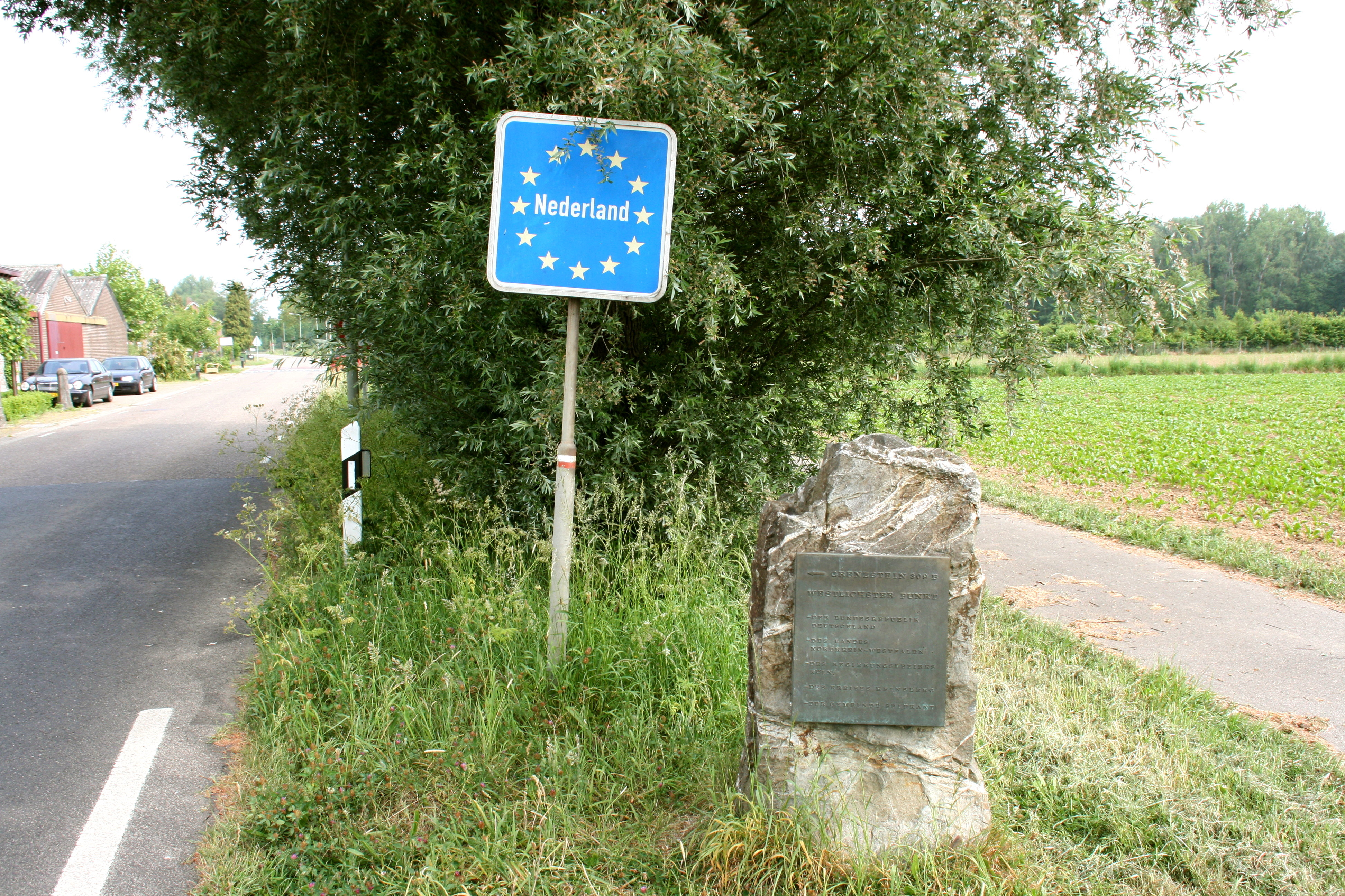 Sign pointing to the close-by westernmost point of Germany, Haus Groevenkamp (K1) in Selfkant-Isenbruch